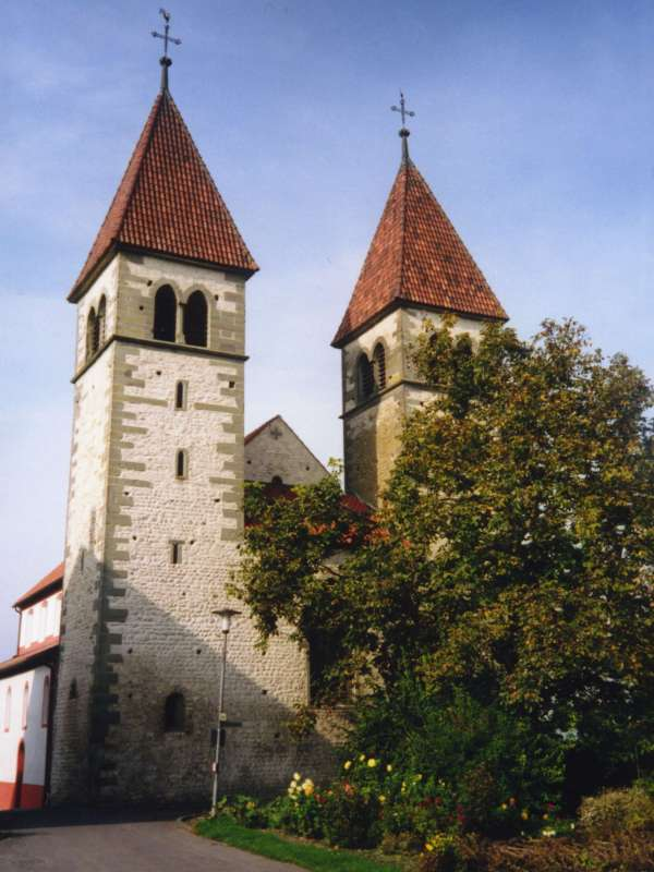 St.Peter und Paul church on Reichenau Island Photo taken by User:Ahoerstemeier in November 2001